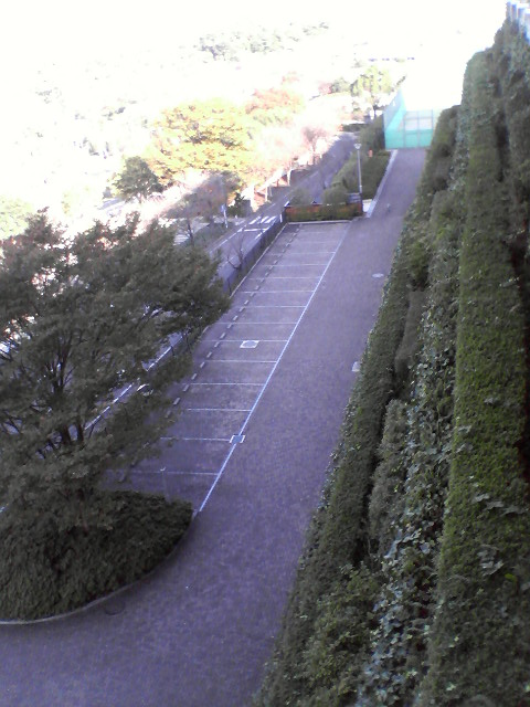 The access road behind the Back Stand at Nihondaira which prevents extention of the stand.JPG